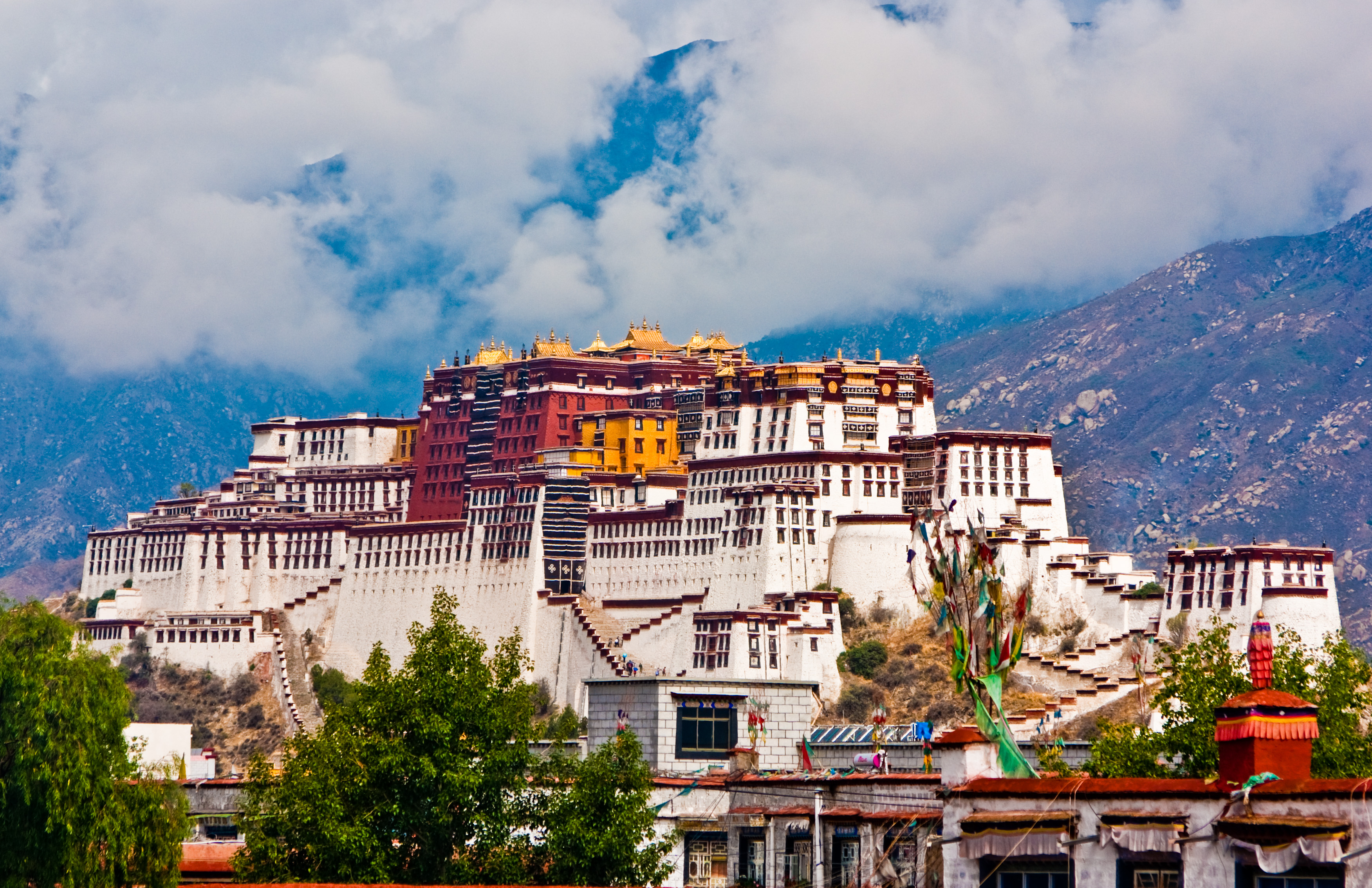 The Potala palace